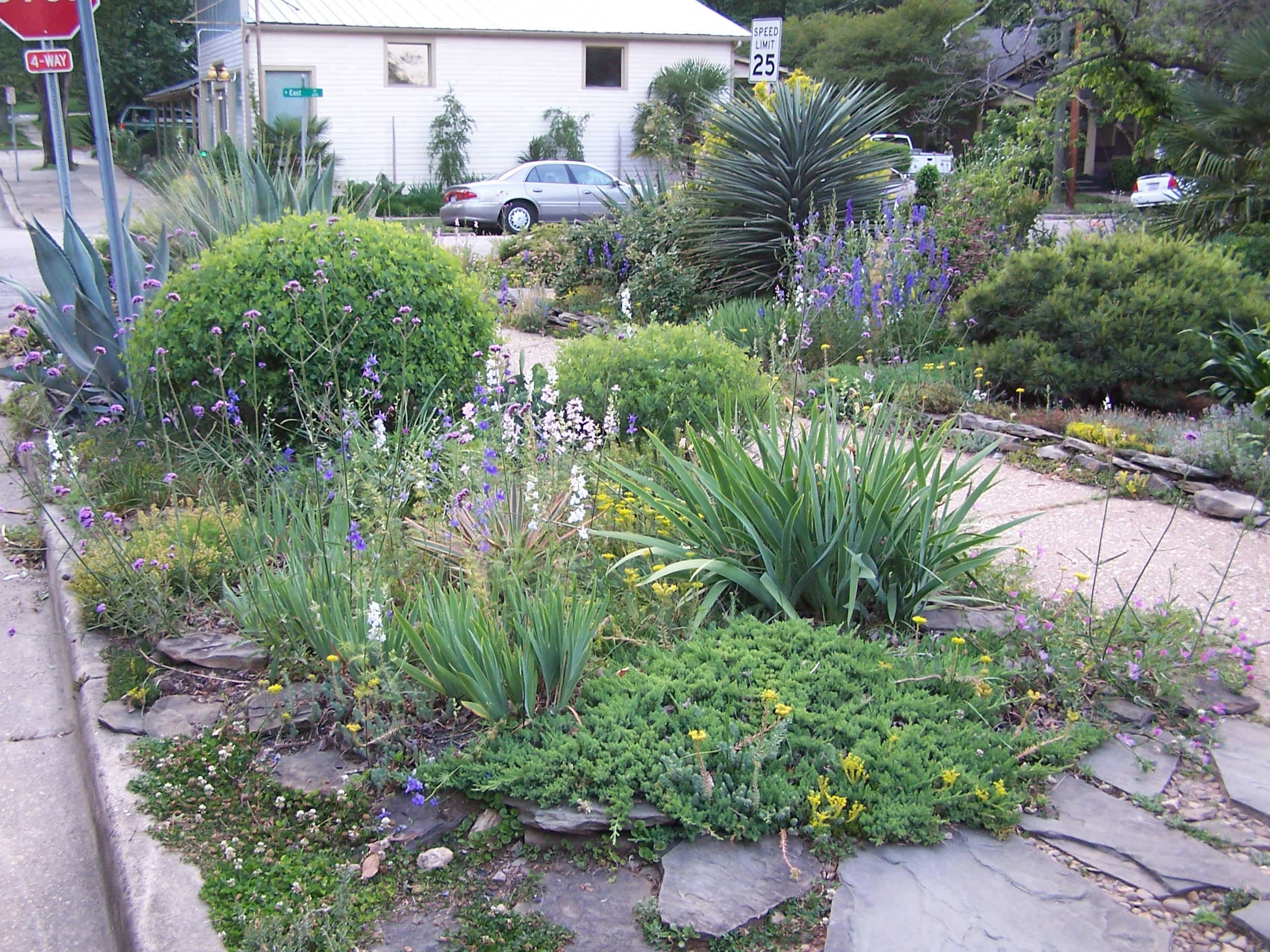 I created this photo of a highly-planted tree lawn, devil strip, or berm at my residence in Raleigh, North Carolina, USA in May 2006.